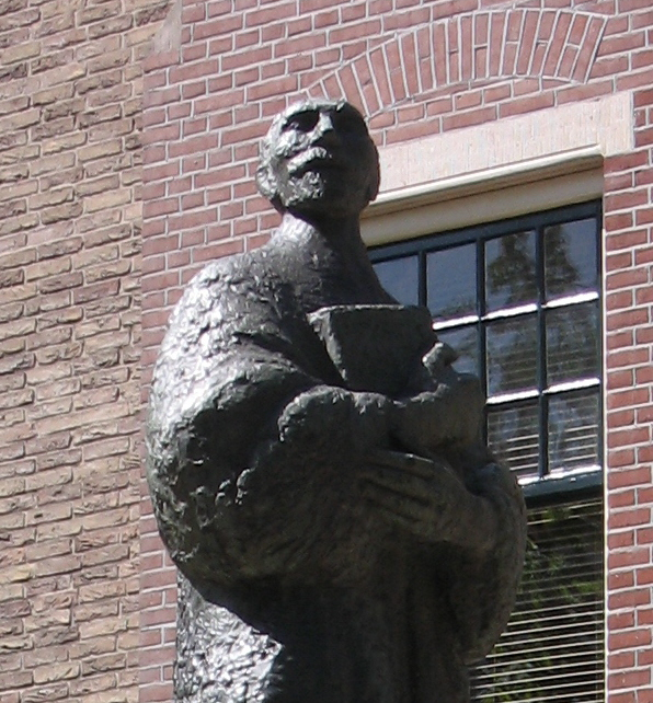 Johannes Stalpaert van der Wiele - Bagijnhof